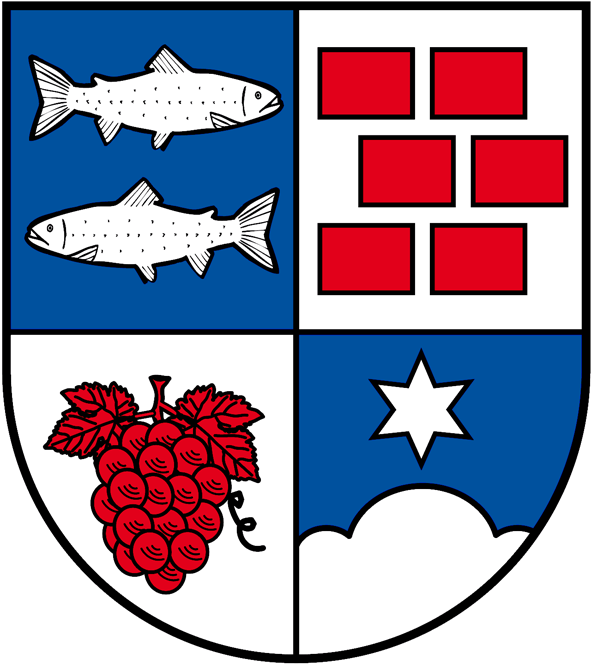 Coat of arms of Wethau